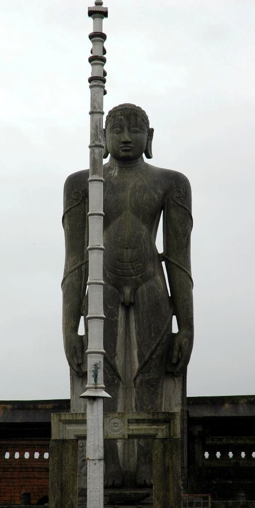 Gomateshwara in Karkala. Photo Credit: Shiva shankar Location: karkala, India More versions